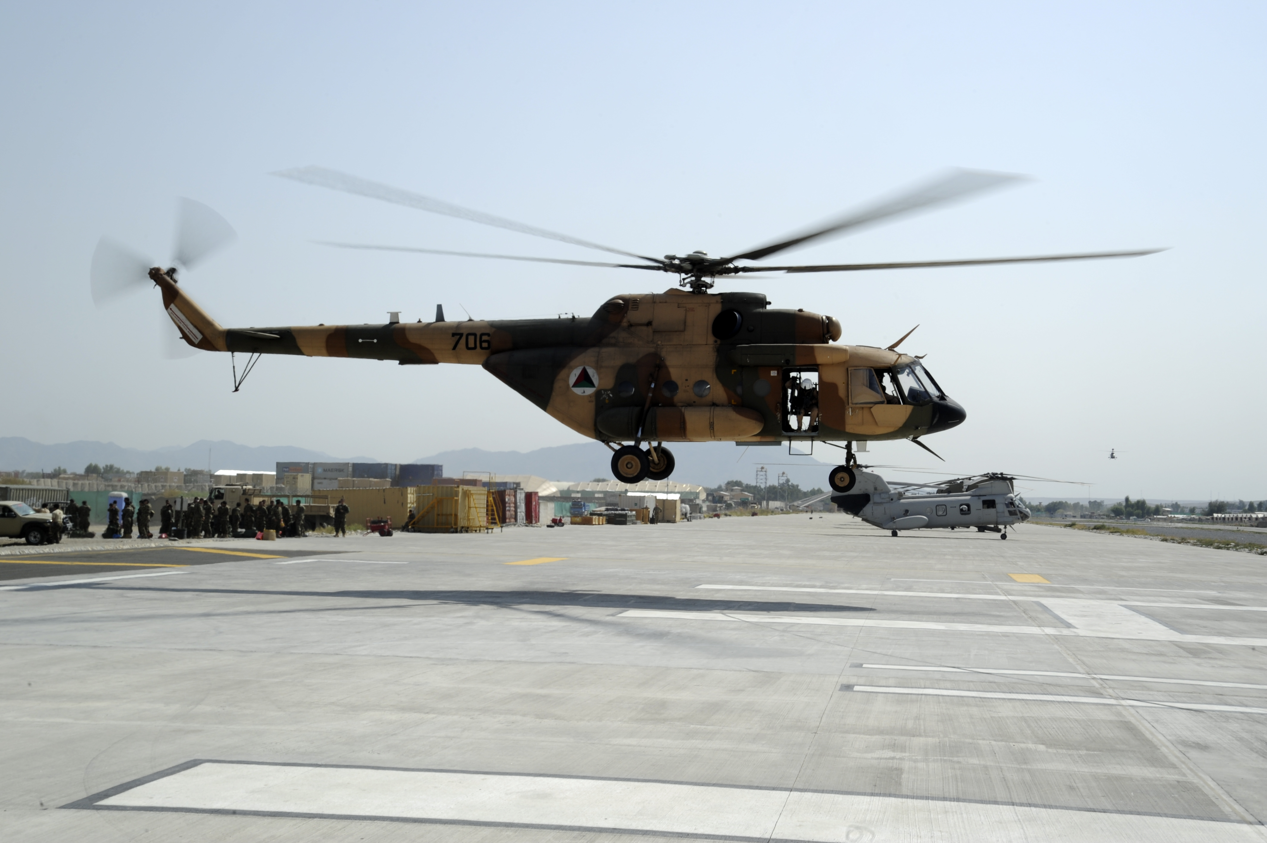 An Afghan Air Force Mi-17 helicopter comes in for a landing at Forward Operating Base Fenty, Jalalabad, Afghanistan, Oct. 8, 2011. The helicopter had just flown from Kabul to Jalalabad. (Photo ID: 471965)